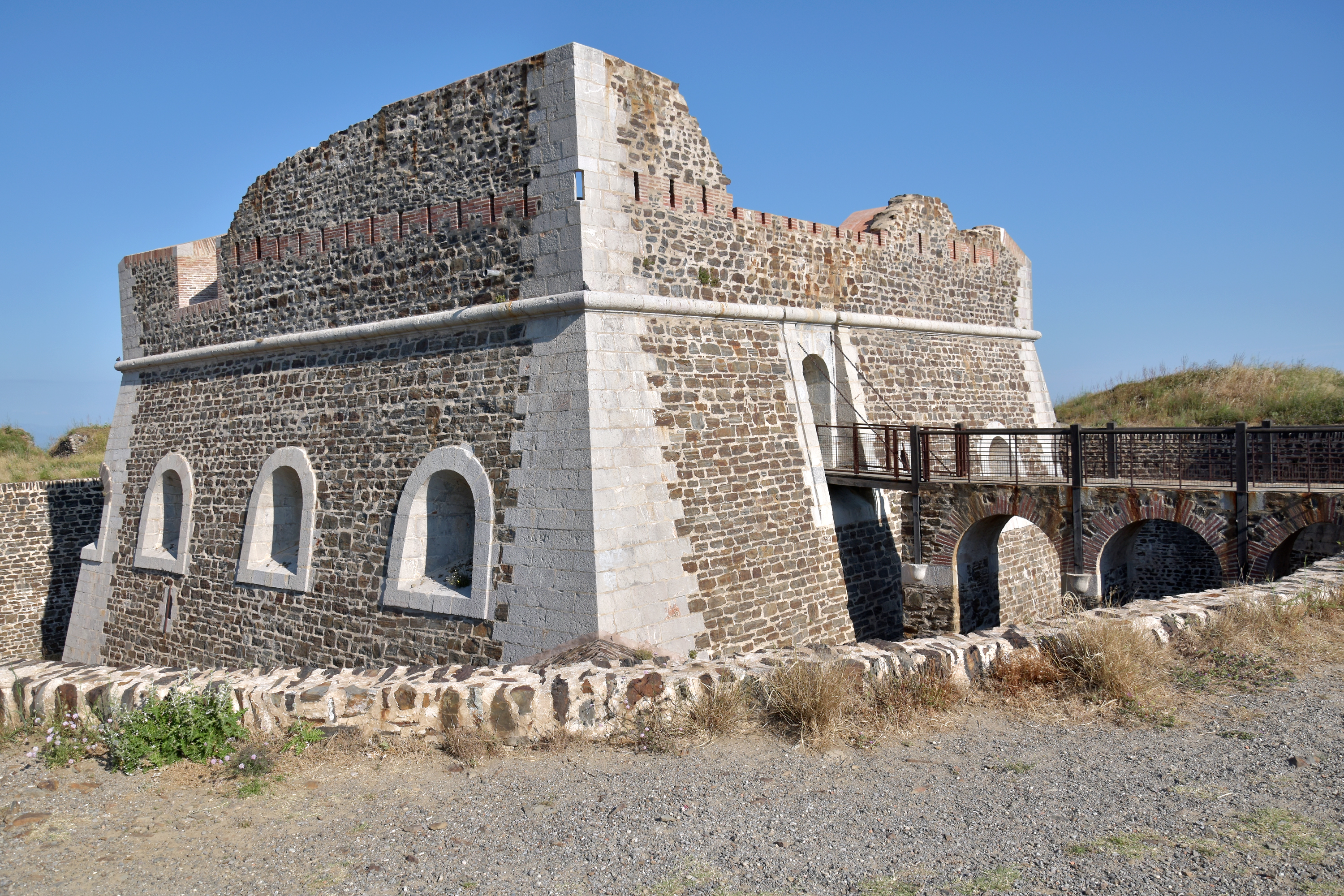 Collioure